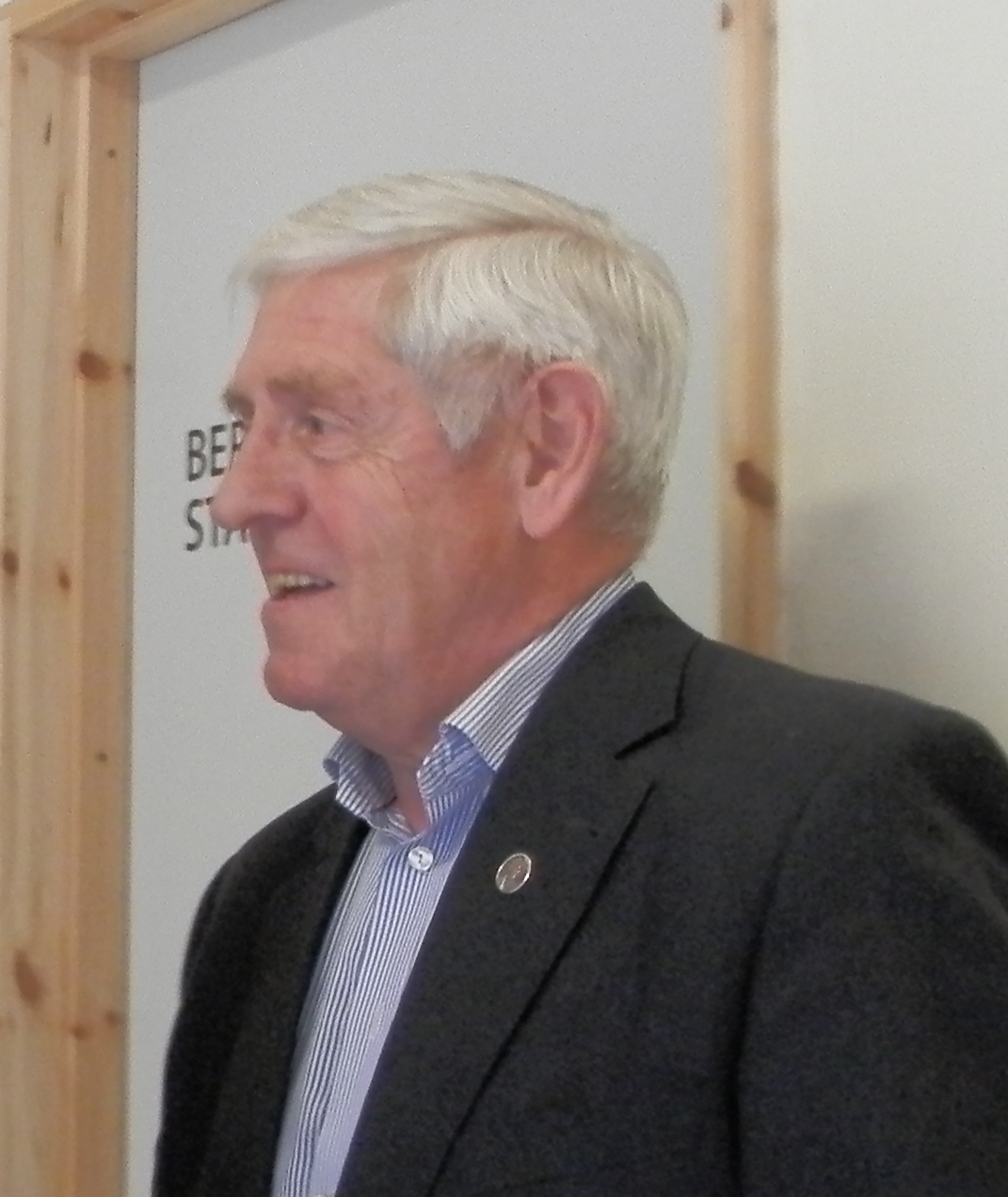 Poul Michelsen is a Faroese business man and a politician (Progress, earlier People's Party).